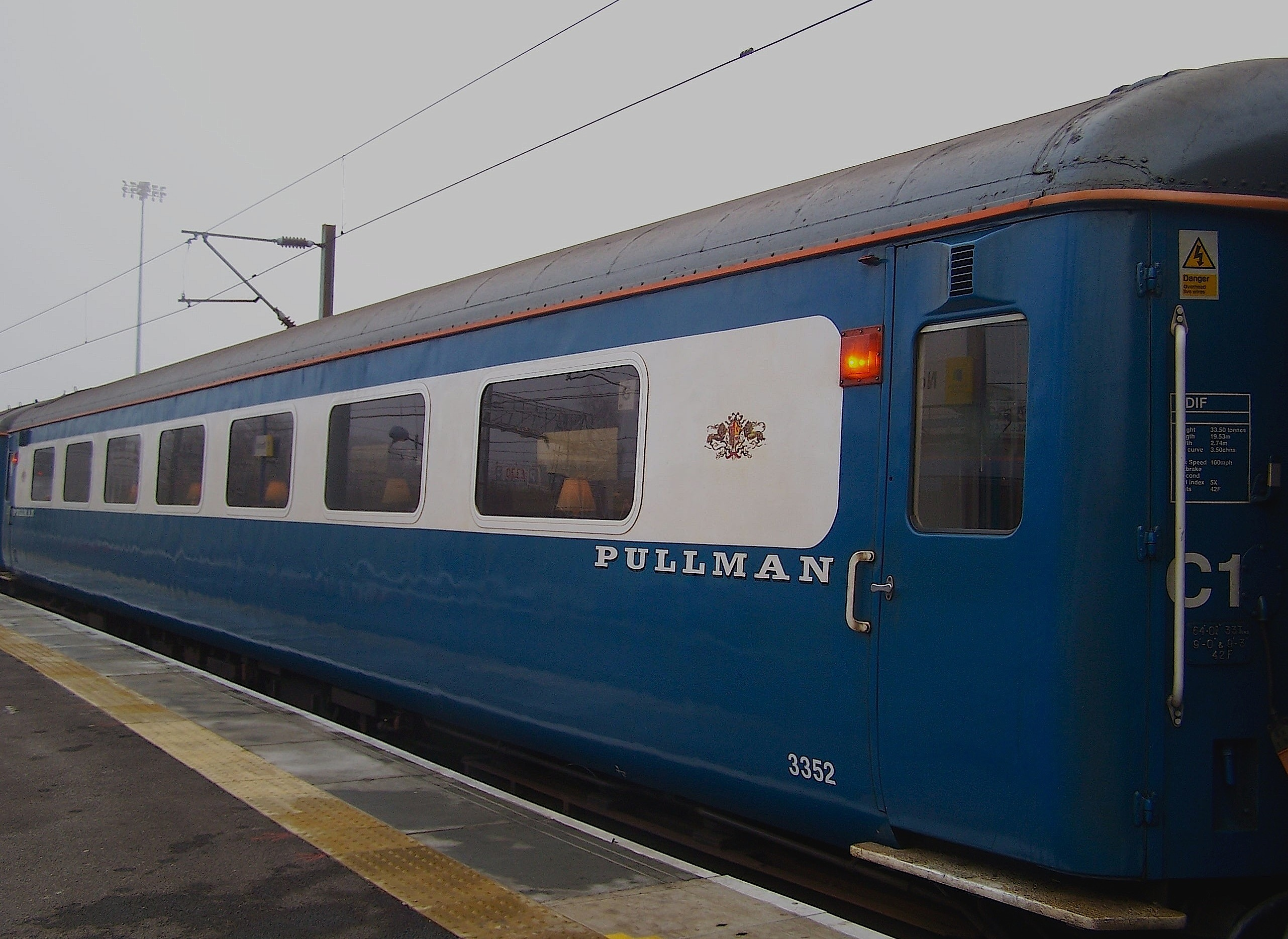 Hertfordshire Railtours charter vehicle Blue Pullman liveried Mark II FO No. 3352.